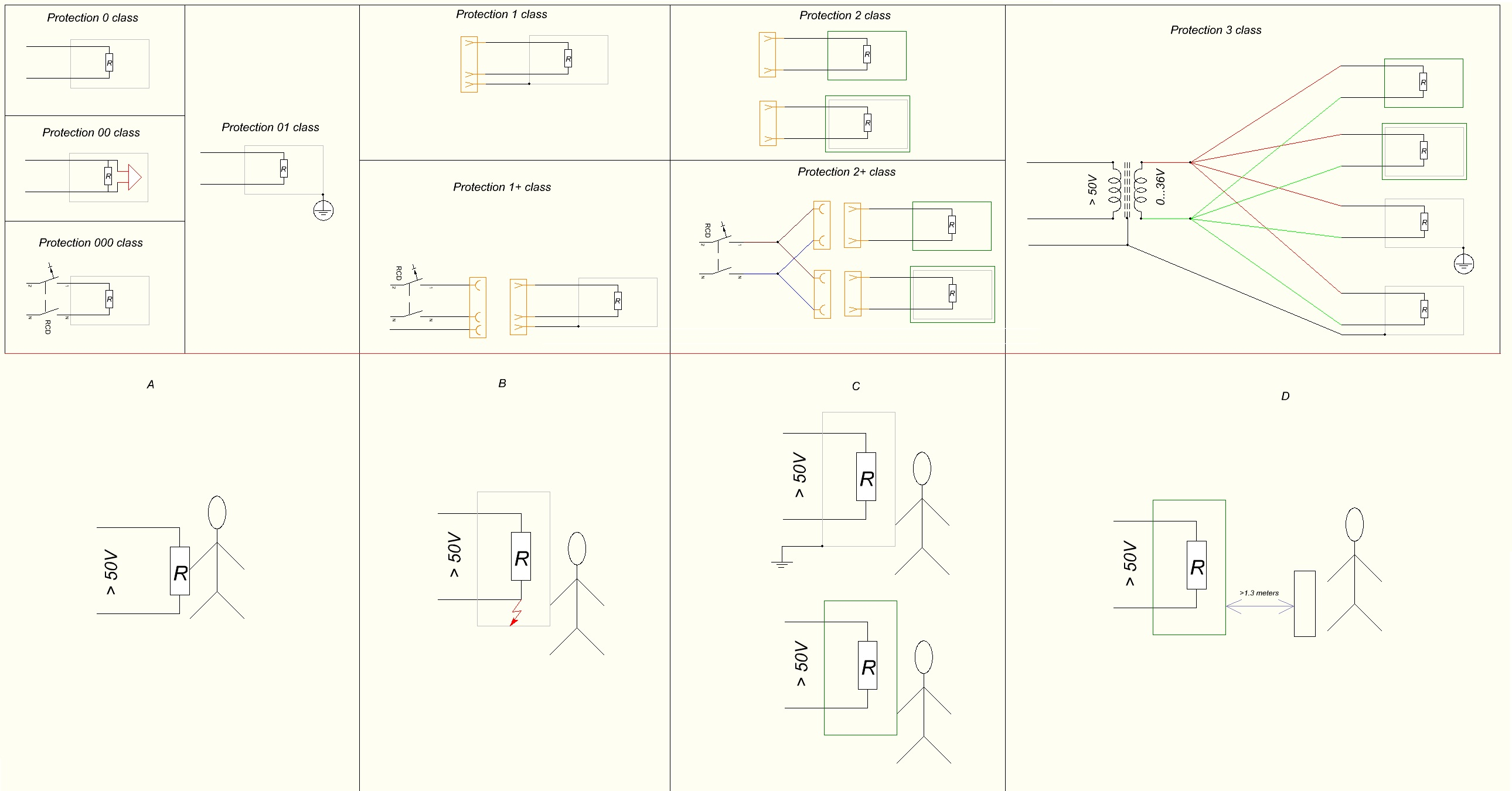 Some things about touching of devices which working voltage exceeds 50V.